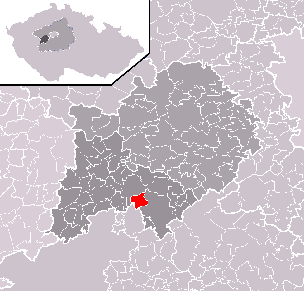 Location of Lhotka municipality within Beroun District and administrative area of Hořovice as a Municipality with Extended Competence.